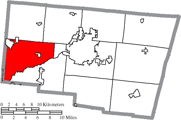 Map of the municipal and township boundaries of Clark County, Ohio, United States, as of the 2000 census, with the location of Bethel Township highlighted. Township borders are shown only in unincorporated areas in order to differentiate incorporated and unincorporated areas more clearly.